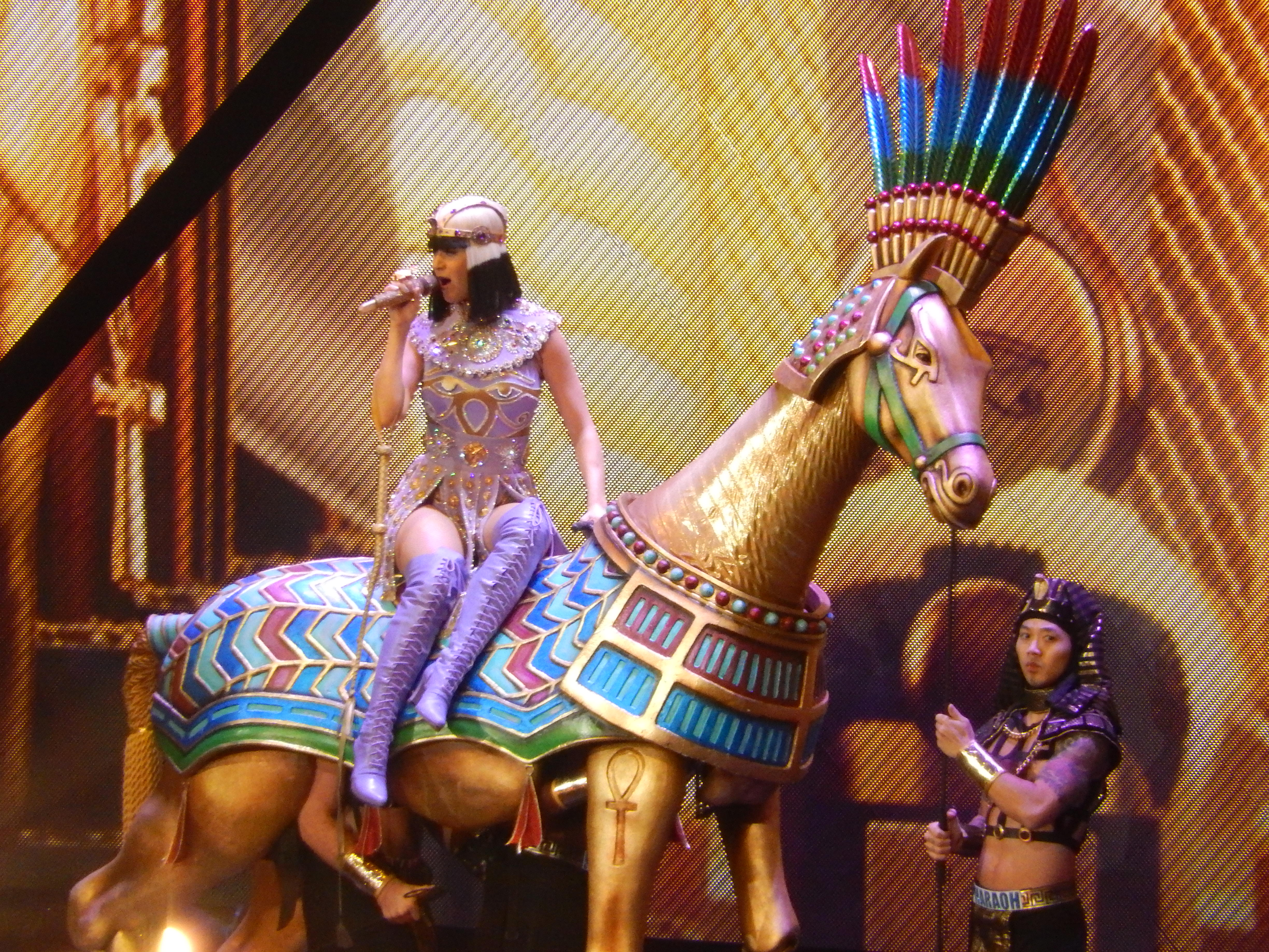 Katy Perry performing at the Prudential Center in Newark, New Jersey on July 11, 2014.